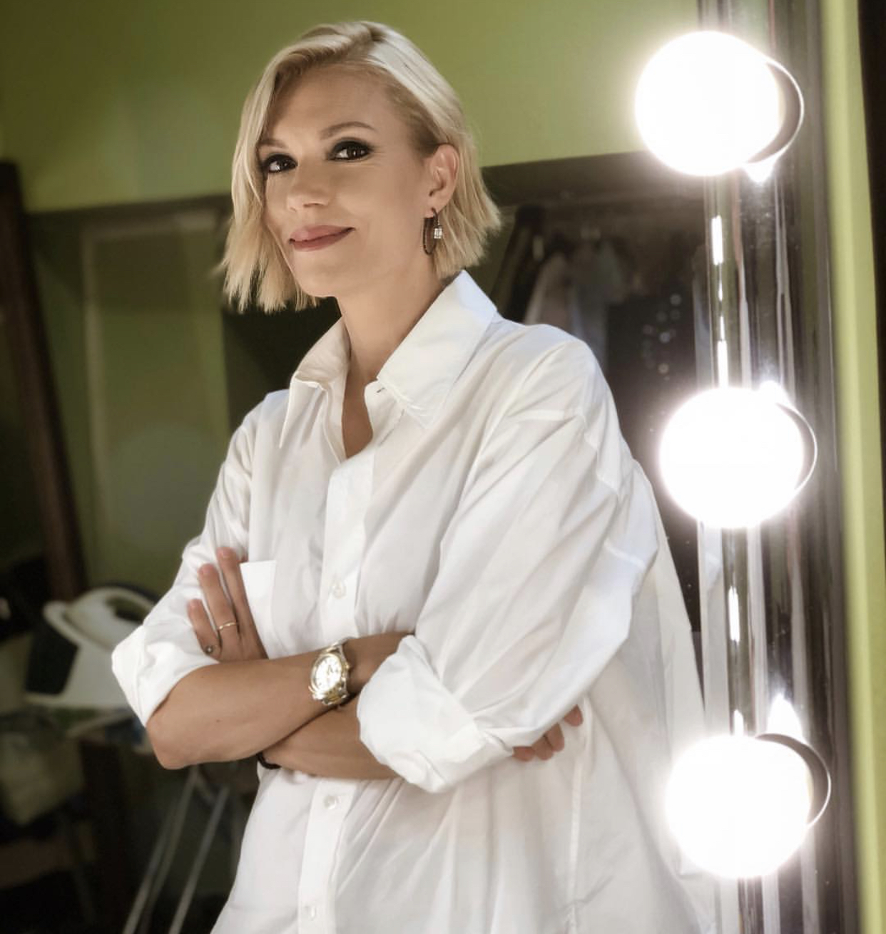 Vicky Kaya as seen in Sept. of 2018